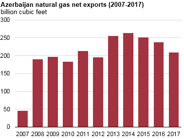 Azerbaijan is an important supplier of crude oil and natural gas in the Caspian Sea region, particularly to European markets. Azerbaijan’s exports of natural gas are poised to become a more significant part of the country’s economy. February 14, 2019